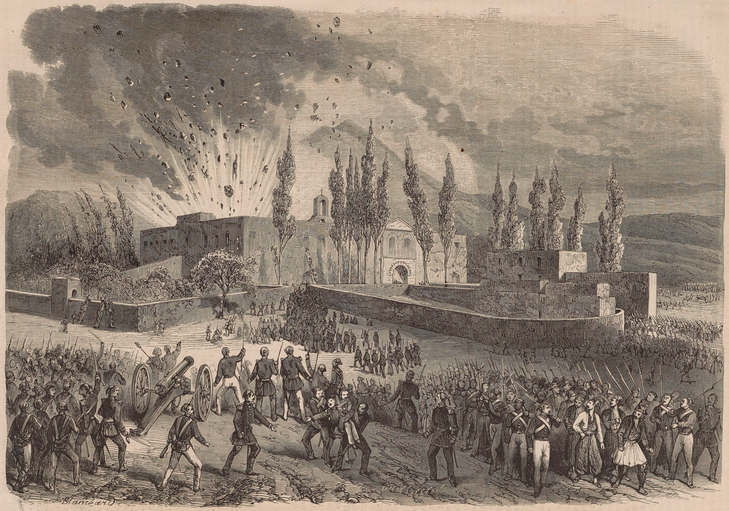 Explosion of the Arkadi monastery